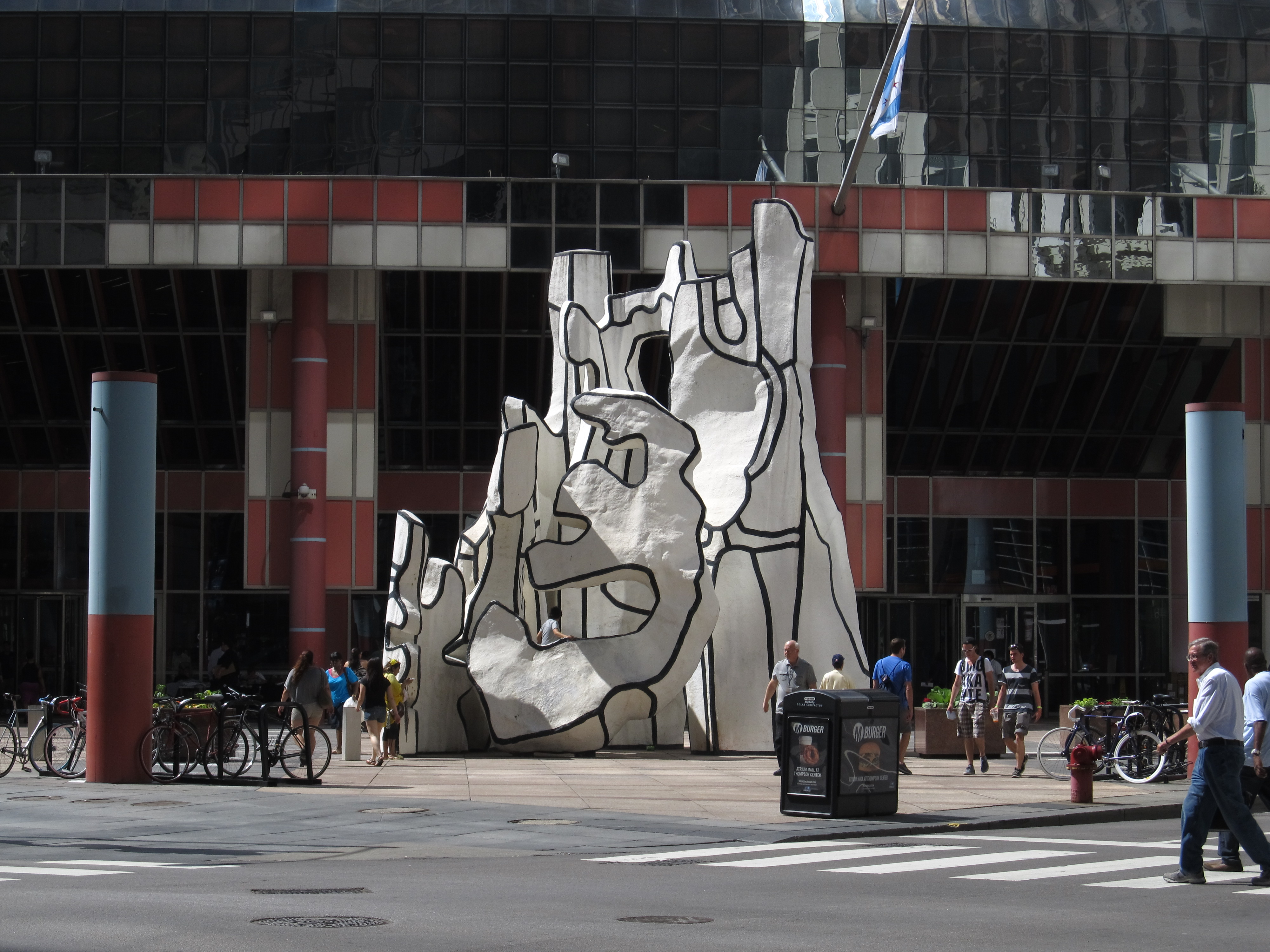 Monument with Standing Beast is a sculpture by Jean Dubuffet in front of the Helmut Jahn designed James R. Thompson Center in the Loop community area of Chicago, Illinois. Its location is across the street from Chicago City Hall to the South and diagonal across the street from the Daley Center to the southeast. It is a 29 feet (8.8 m) white fiberglass work of art. The piece is a 10 ton or 20,000 pounds (9,100 kg) work. It was unveiled on November 28, 1984. This is one of Dubuffet's three monumental sculpture commissions in the United States. It has been taken to represent a standing animal, a tree, a portal and an architectural form. The sculpture is based on Dubuffet's 1960 painting series Hourioupe. The sculpture is affectionately known to many Chicagoans as "Snoopy in a blender".